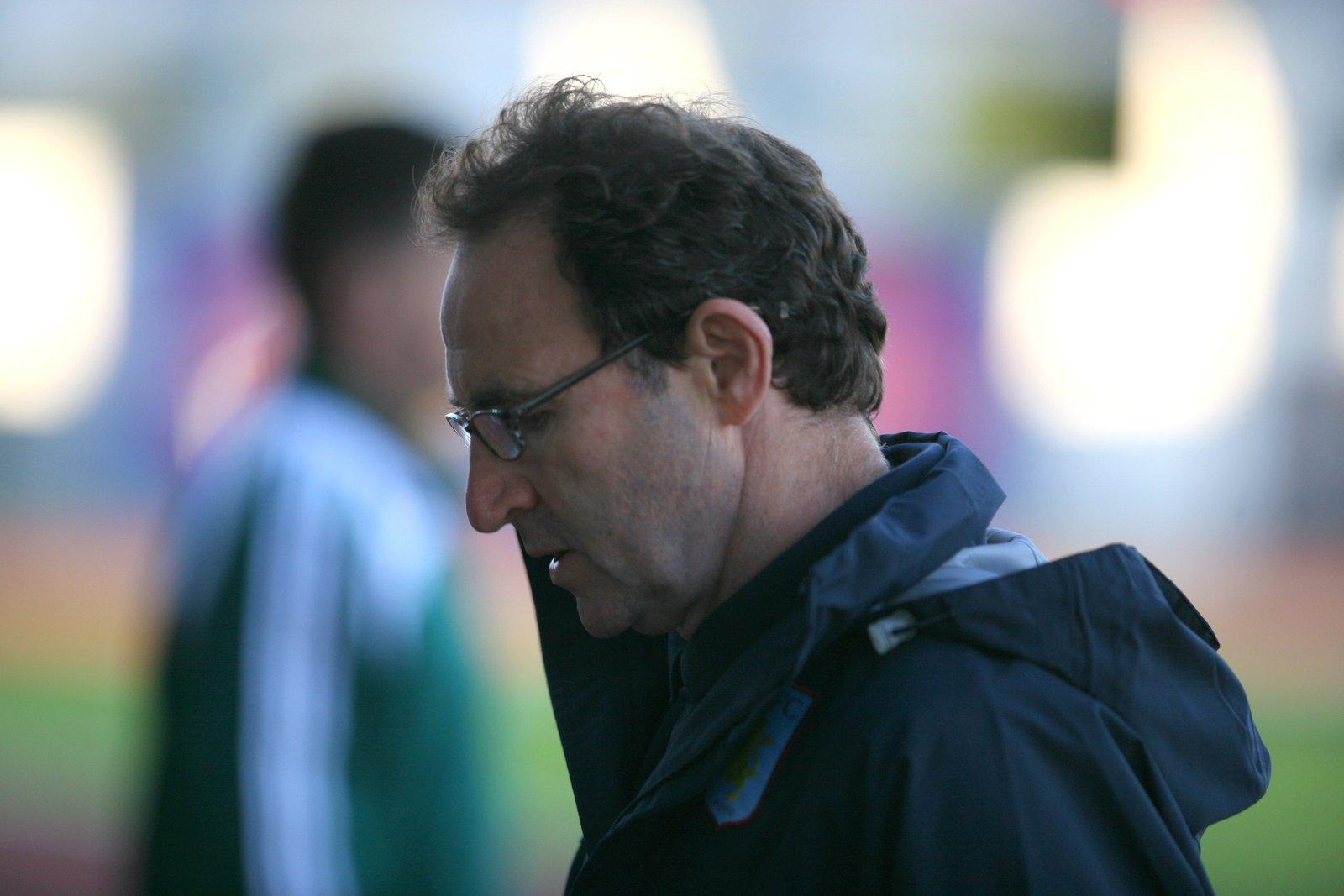 Martin O'Neill, manager o